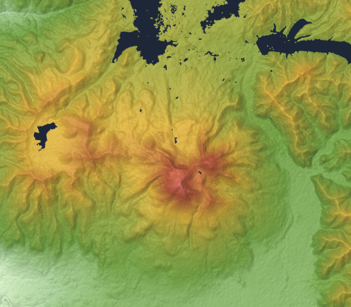 Relief map of Bandai volcano (right) & Nekoma volcano (left), Fukushima Prefecture, Tōhoku region, Honshu, Japan. Data from "SRTM-1 (30m Mesh) Ver.3 2014".